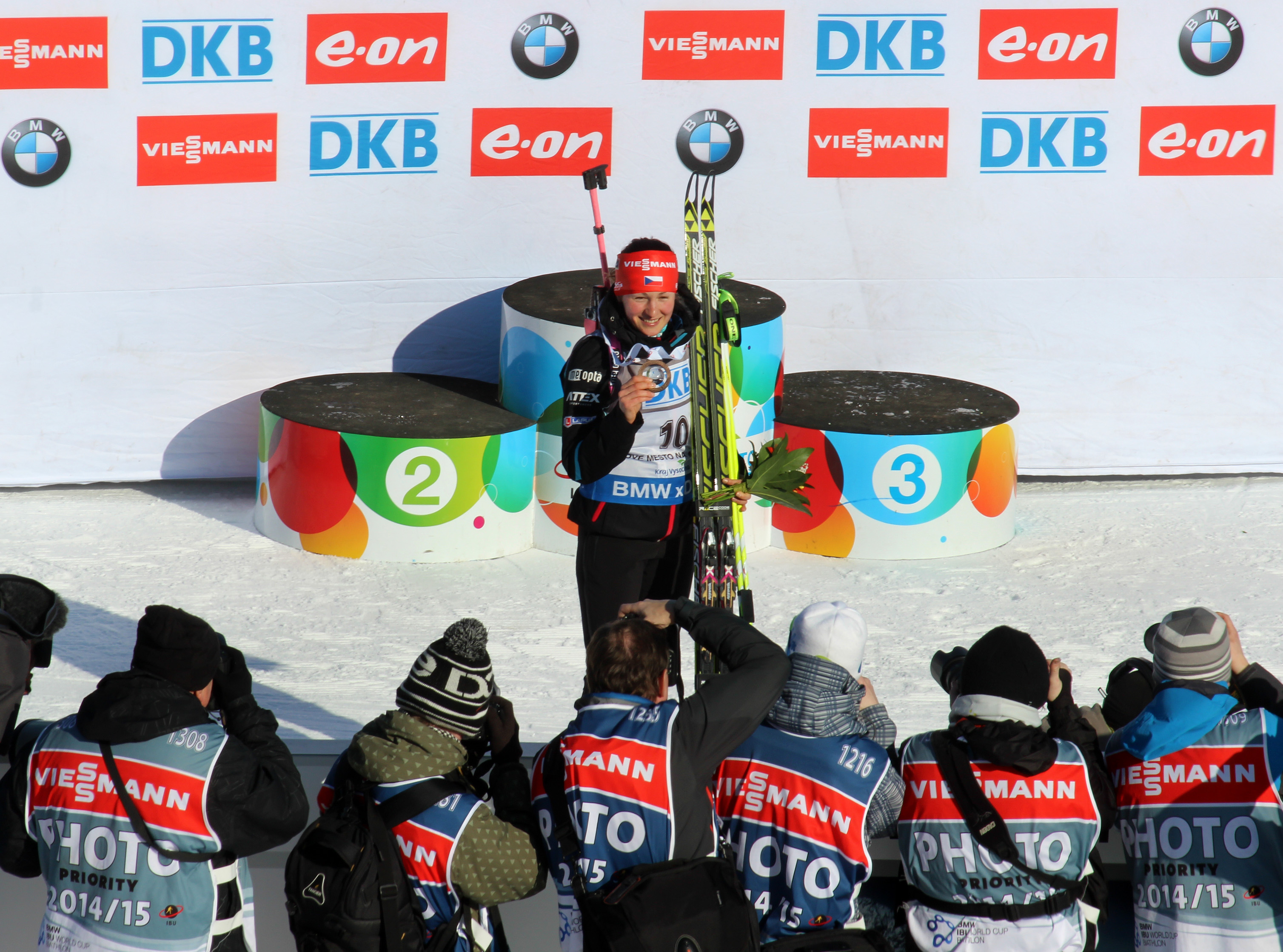 Biathlon World Cup 2015 in Nové Město, Czech Republic – Veronika Vítková